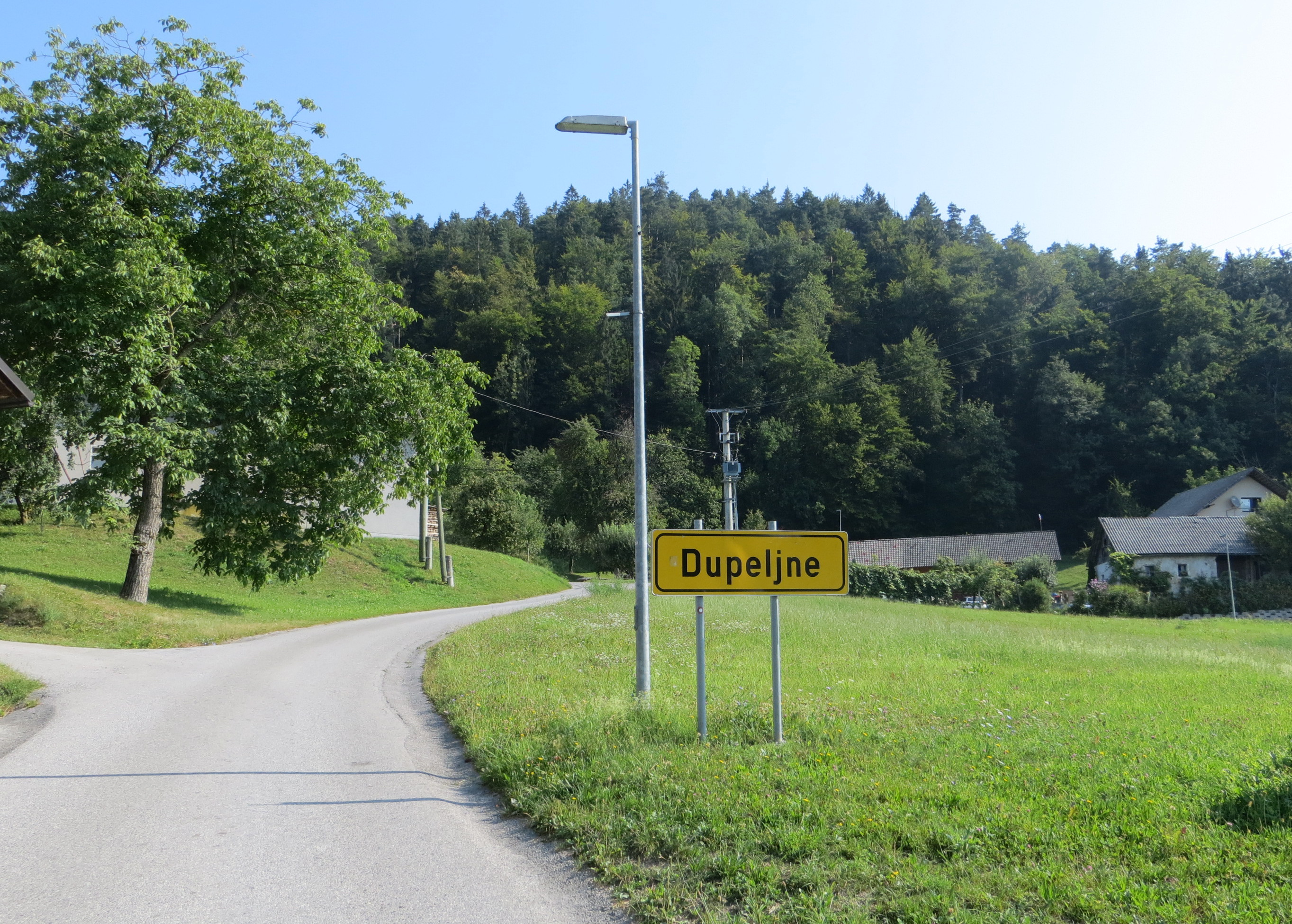 Dupeljne, Municipality of Lukovica, Slovenia